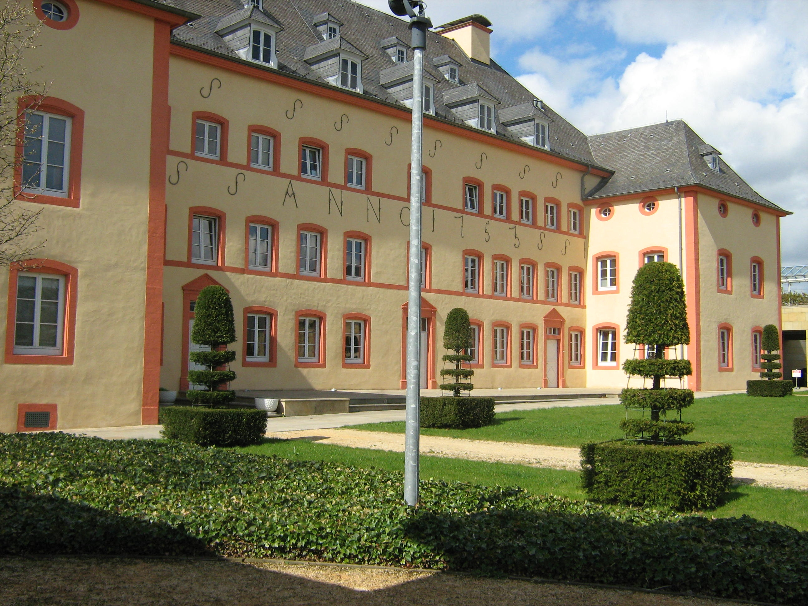 The castle of Bettange-sur-Mess (Château de Bettange-sur-Mess) in southern Luxembourg.